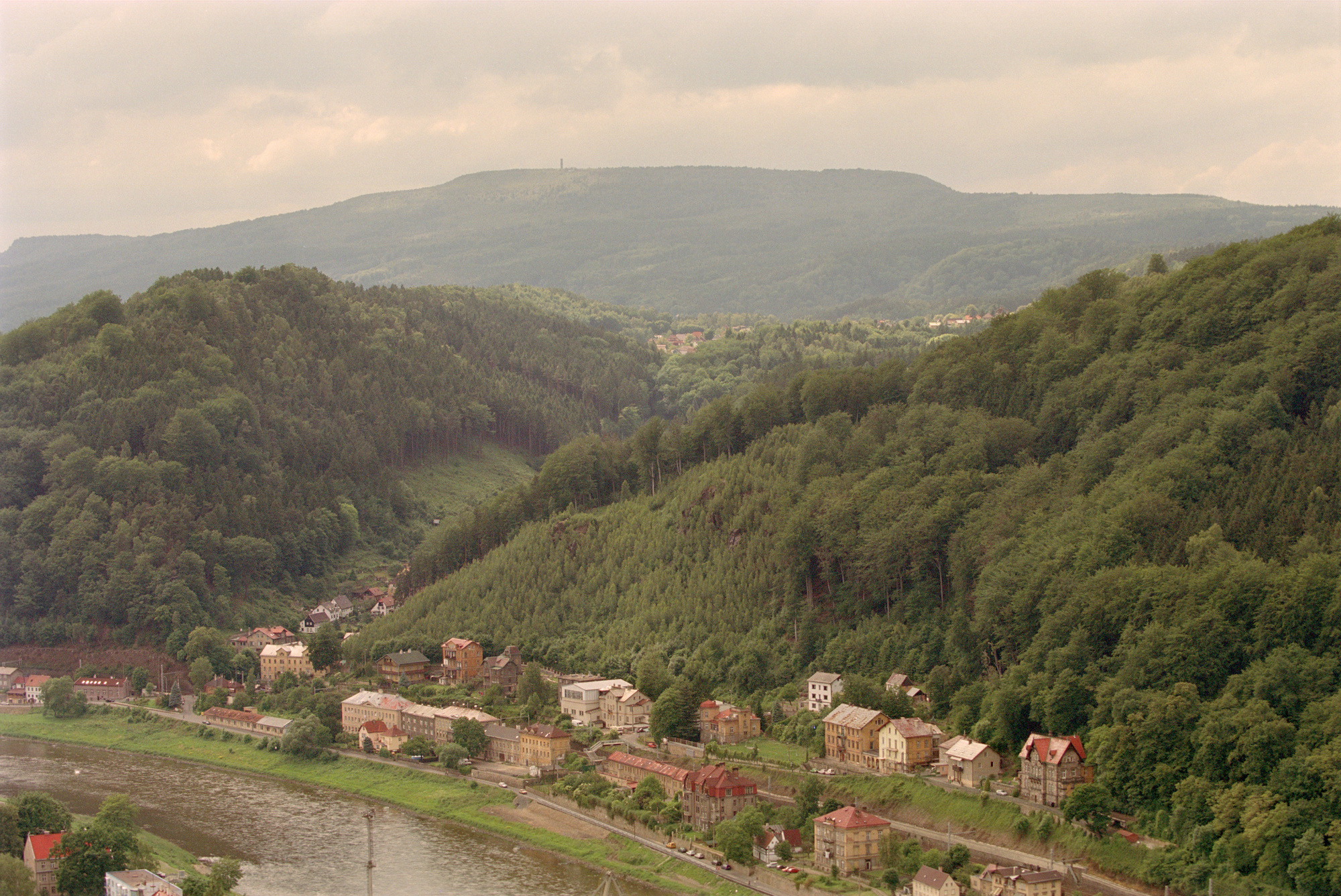 Děčínský Sněžník (Děčín Snow Mountain) seen from Děčín, the Czech Republic